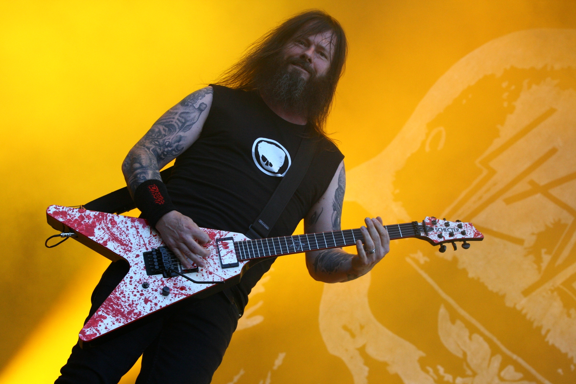 Gary Holt, tour guitarist of Slayer, Rock im Park Festival 2014. Festivalsommer This photo was created with the support of donations to Wikimedia Deutschland in the context of the CPB project "Festival Summer".